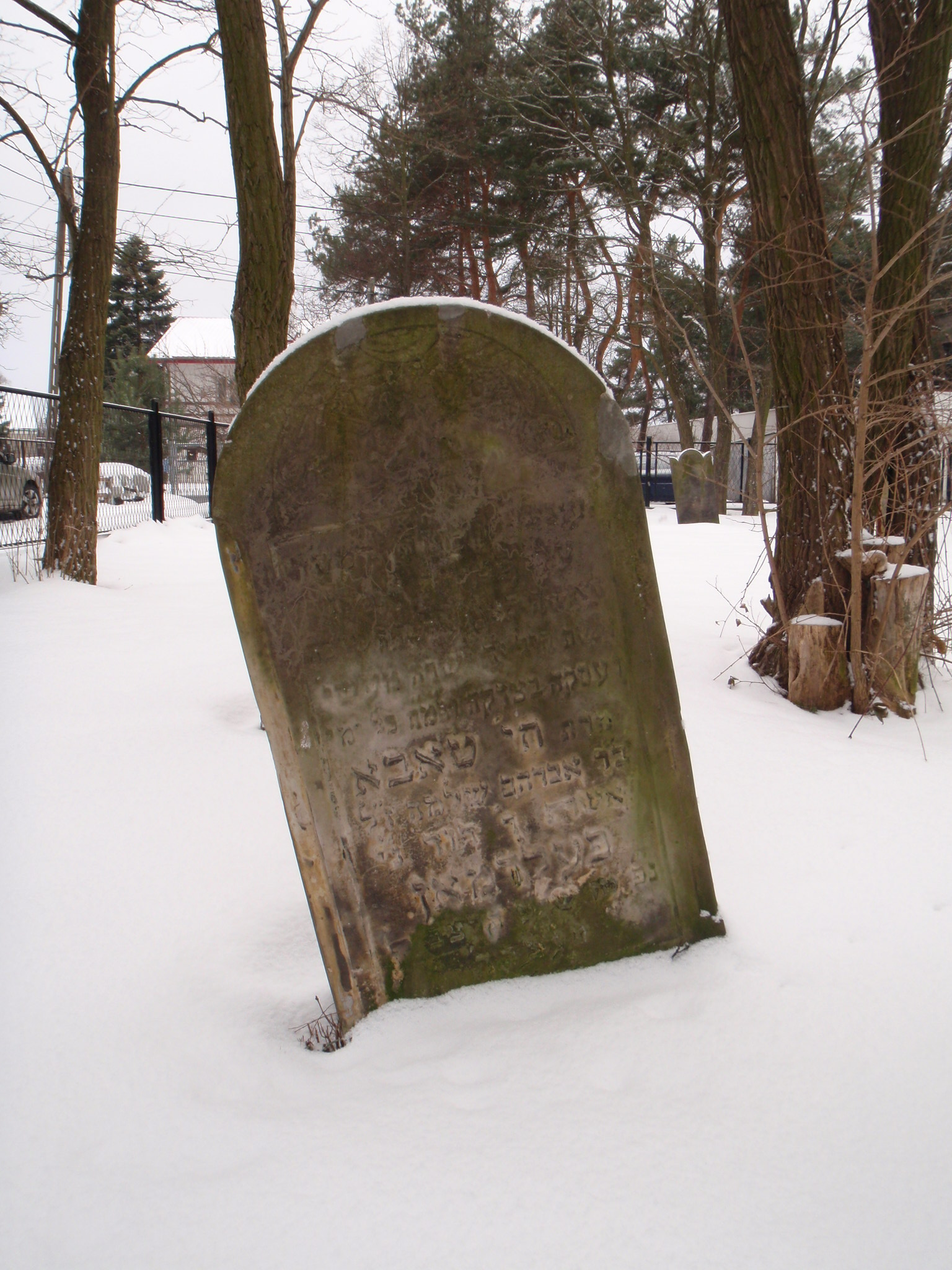 Tombstone of Chaia Tova Feldman, daughter of Abraham Shlomo, wife of David. Chaia died 16 Shvat 692 (24 January 1932)